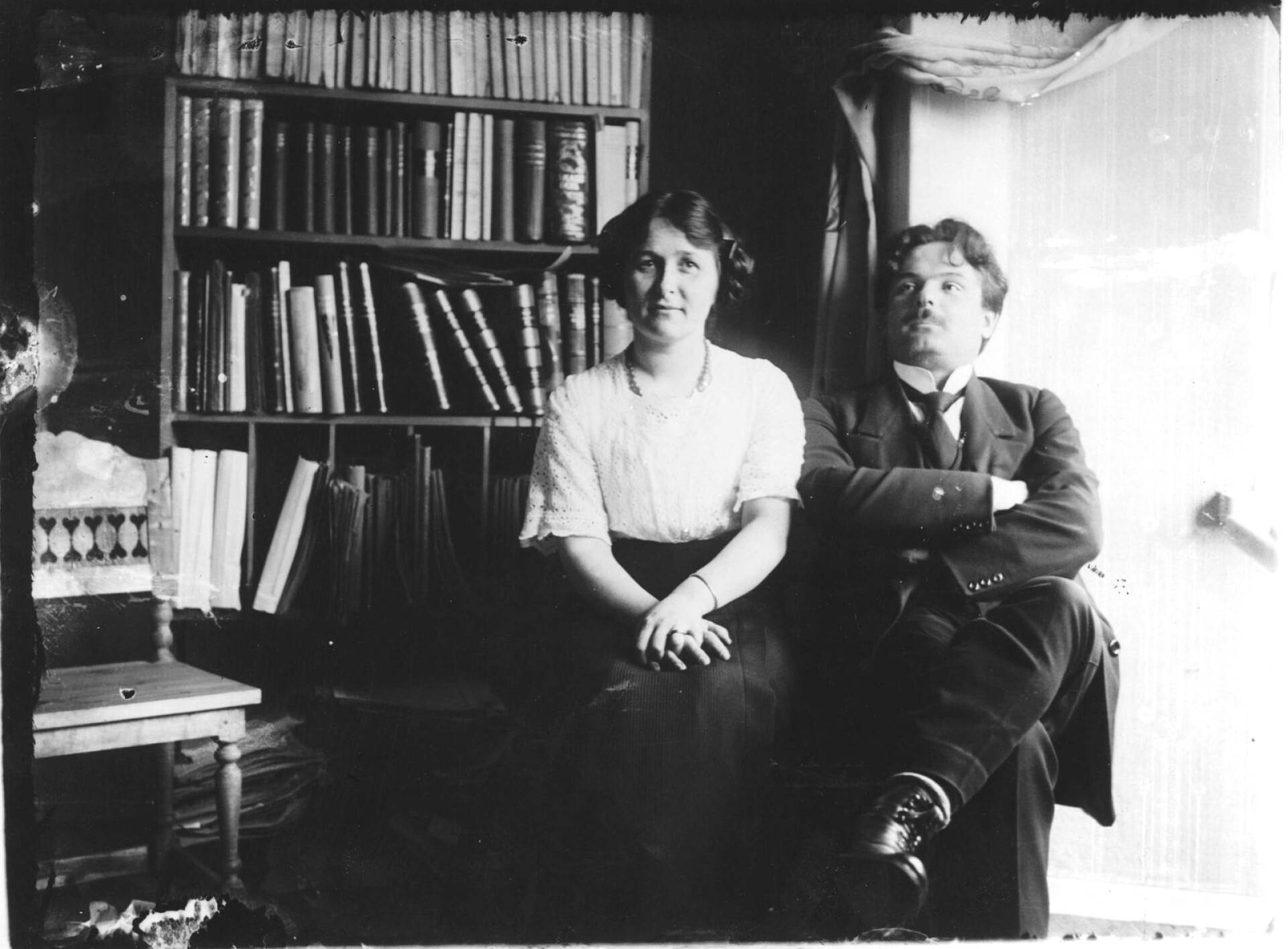 Alma and Toivo Kuula in 1914, when they married.